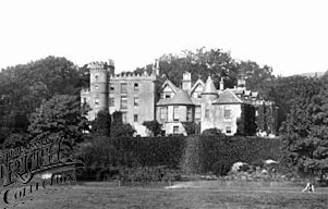 Ardencaple Castle, situated near Helensburgh, Dumbartonshire, Scotland. Photo published in 1901.